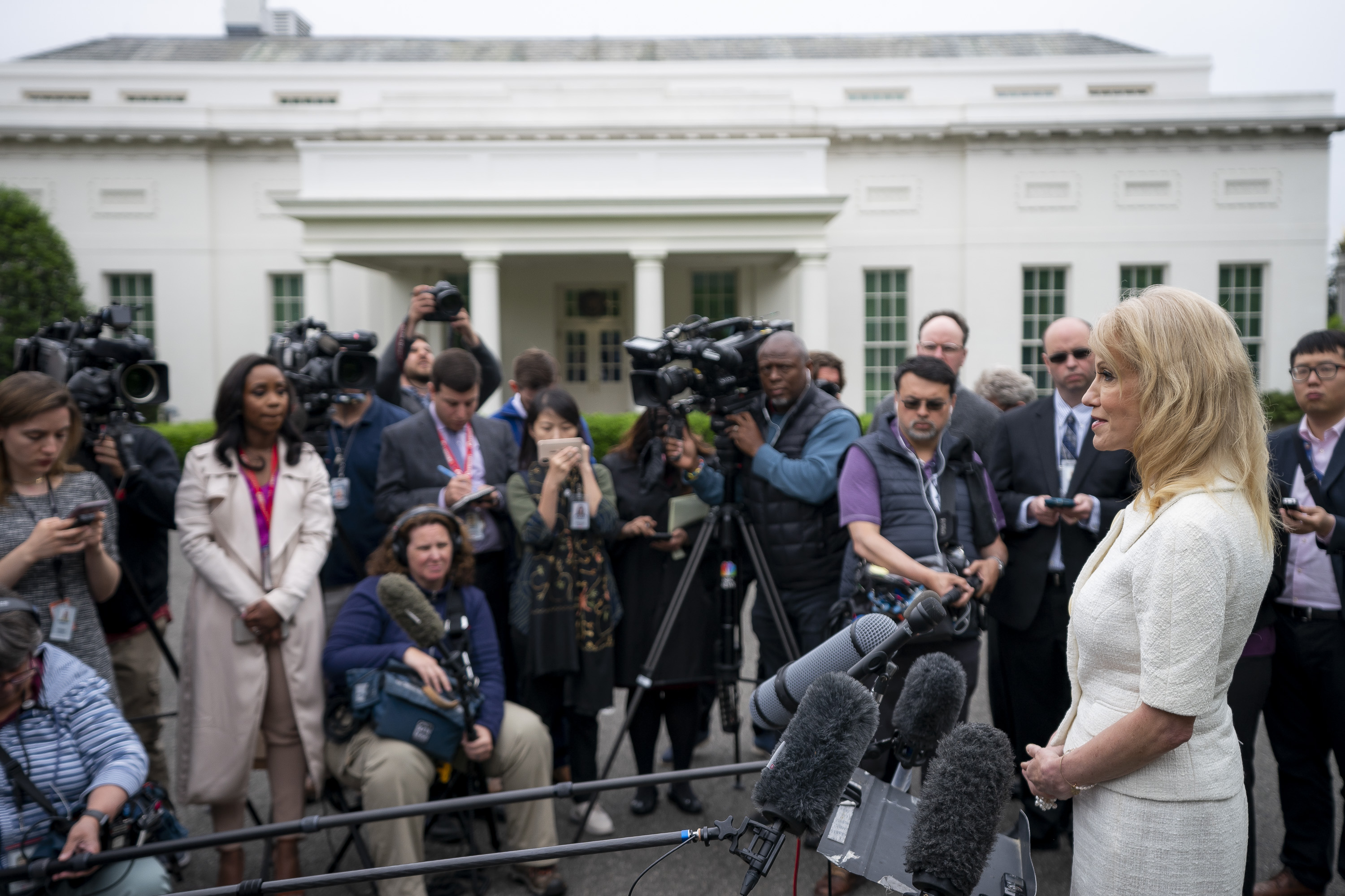 Counselor to the President Kellyanne Conway talks to reporters and answers questions Wednesday, May 1, 2019, outside the West Wing entrance of the White House. (Official White House Photo by Tia Dufour)